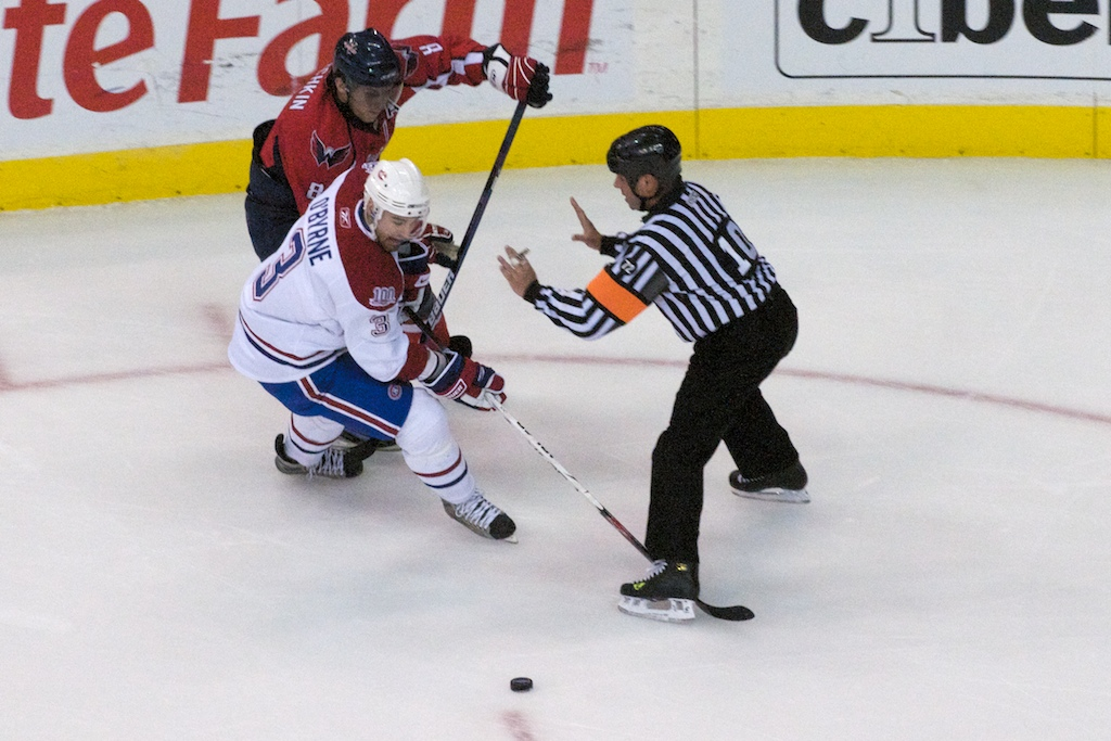 Paul Devorski officiating the Boston Bruins at Washington Capitals preseason game on October 5, 2008.